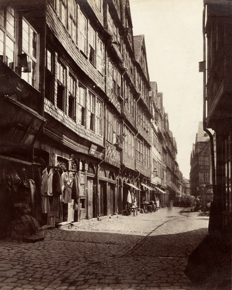 View of the Judengasse, Frankfurt am Main. Circa 1870. Albumen print. 20,5 x 16,5 cm. Annotated in pencil on the verso.